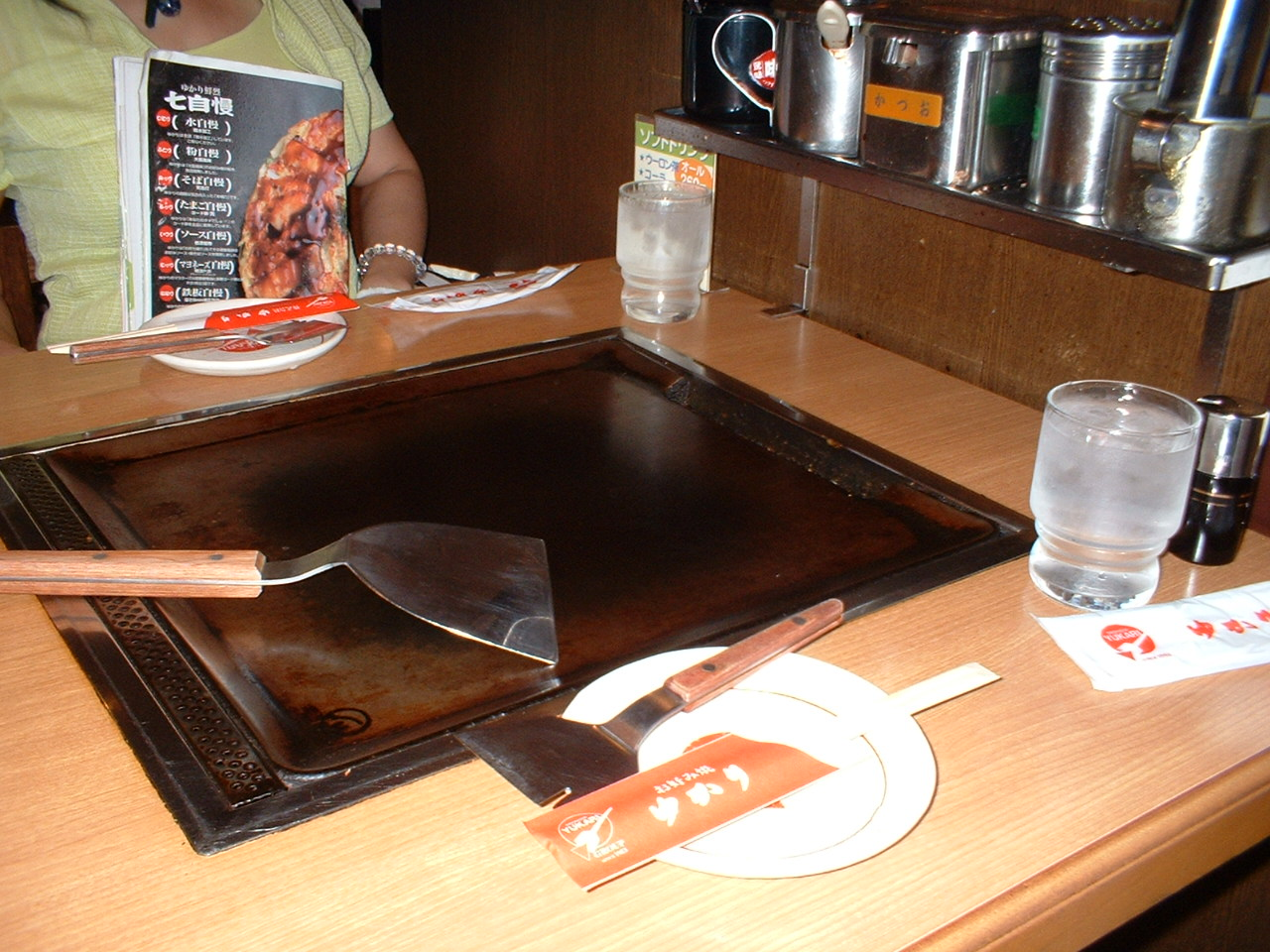 Table with iron plate for Okonomiyaki (お好み焼きの鉄板)